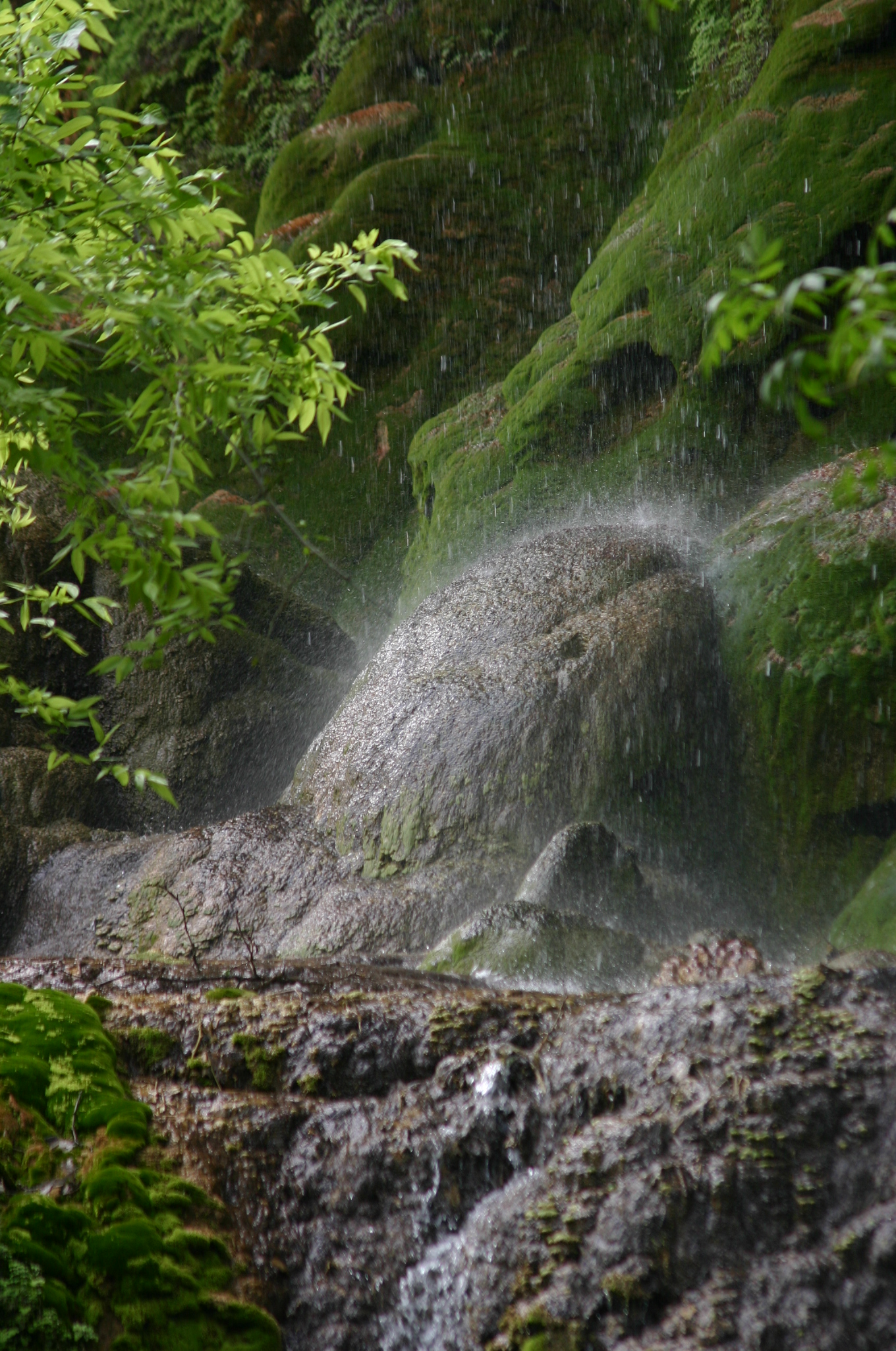 A limestone rock formation, in a stalagmite—like feature, beneath a waterfall in Colorado Bend State Park, Bend, Texas. The feature forms outside many caves, as carbonate-rich water constantly pours over the bedrock, making it round-shaped.